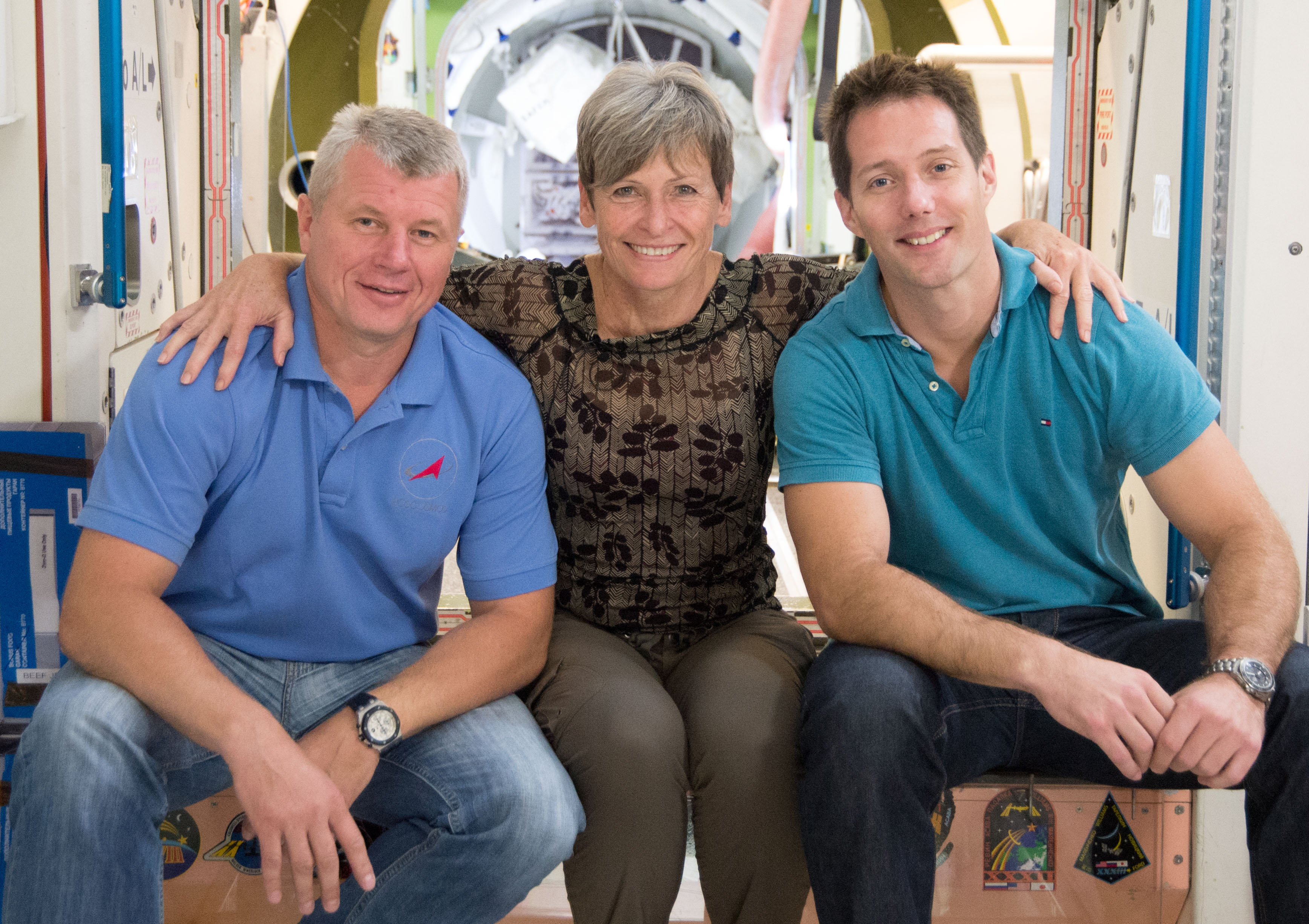 Expedition 50/51 crew members Peggy Whitson, Thomas Pesquet and Oleg Novitsky during Toxic Scene Generic training.